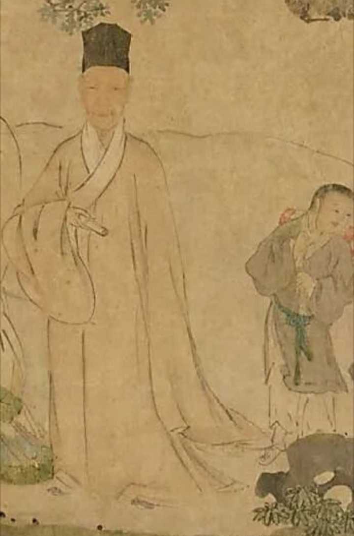 Zhang Feng Yi, dramatist of the Ming Dynasty.